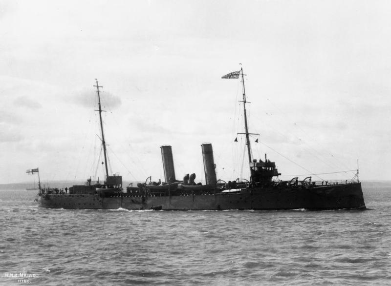 Photograph of British Apollo class protected cruiser HMS Naiad.